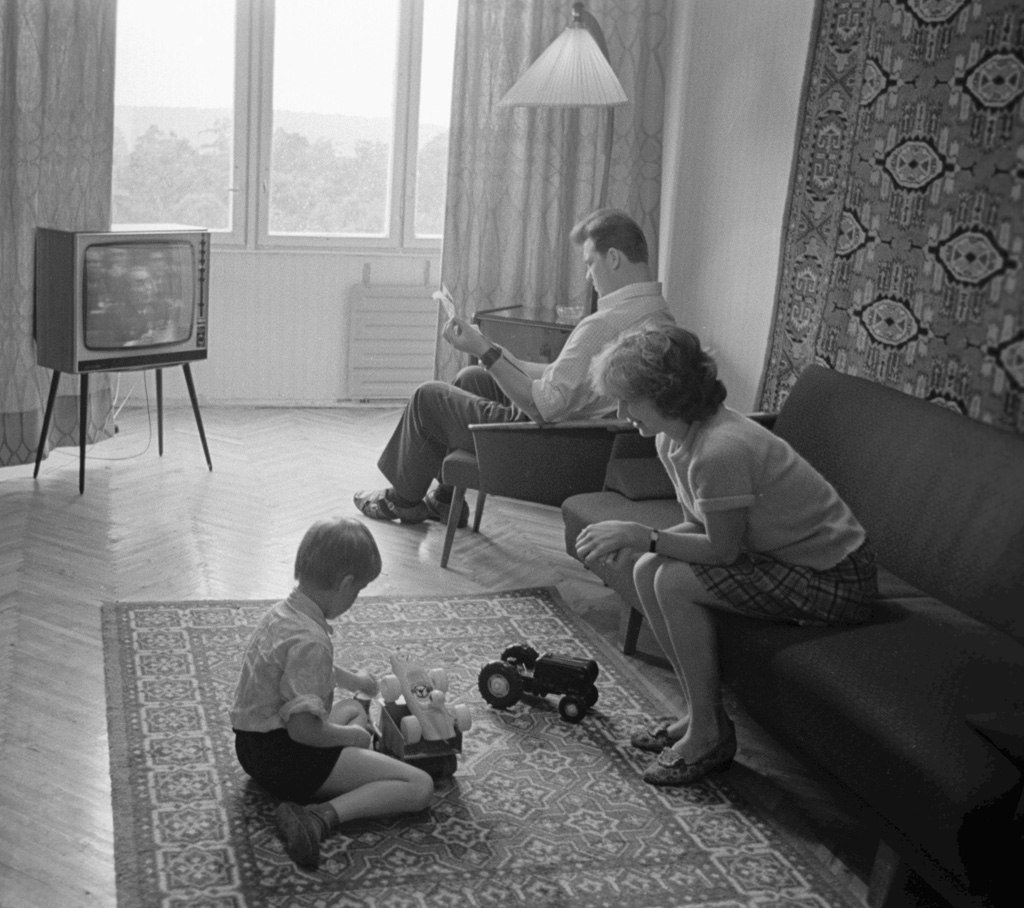 “Worker's family”. The family of a calculating and control machine factory worker in a standard apartment in Kiev.